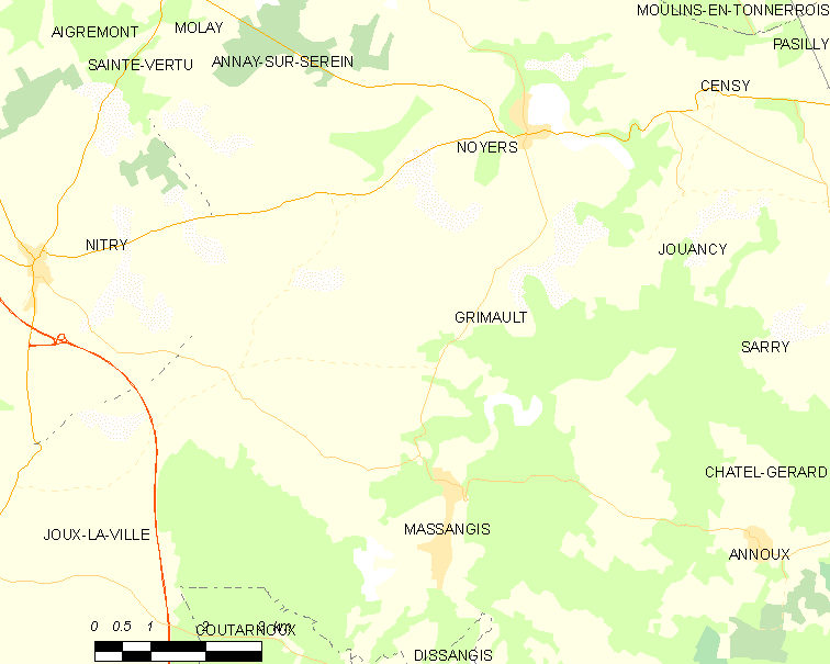 Map of French municipality Grimault